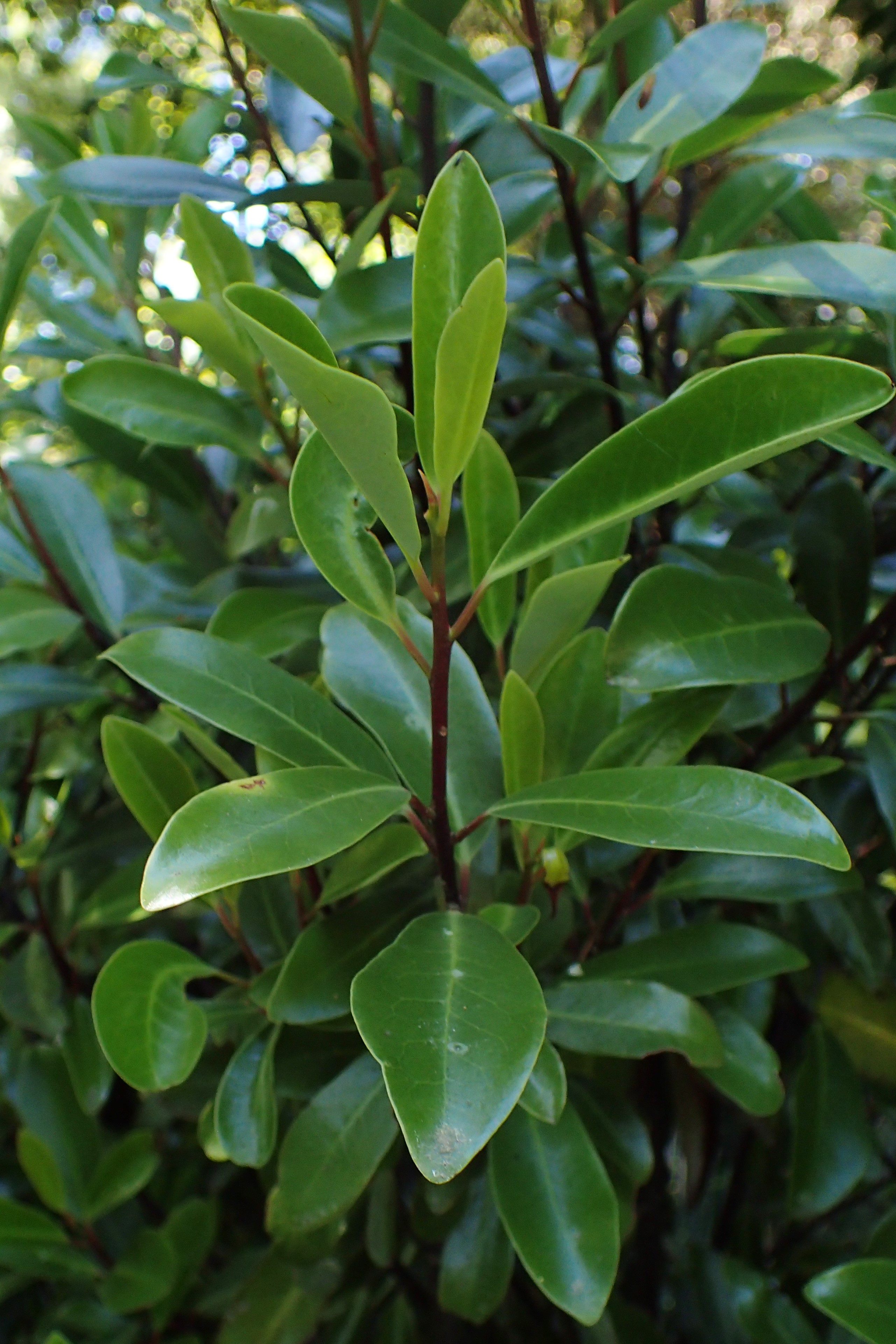 Pseudowintera axillaris in Dunedin Botanic Garden